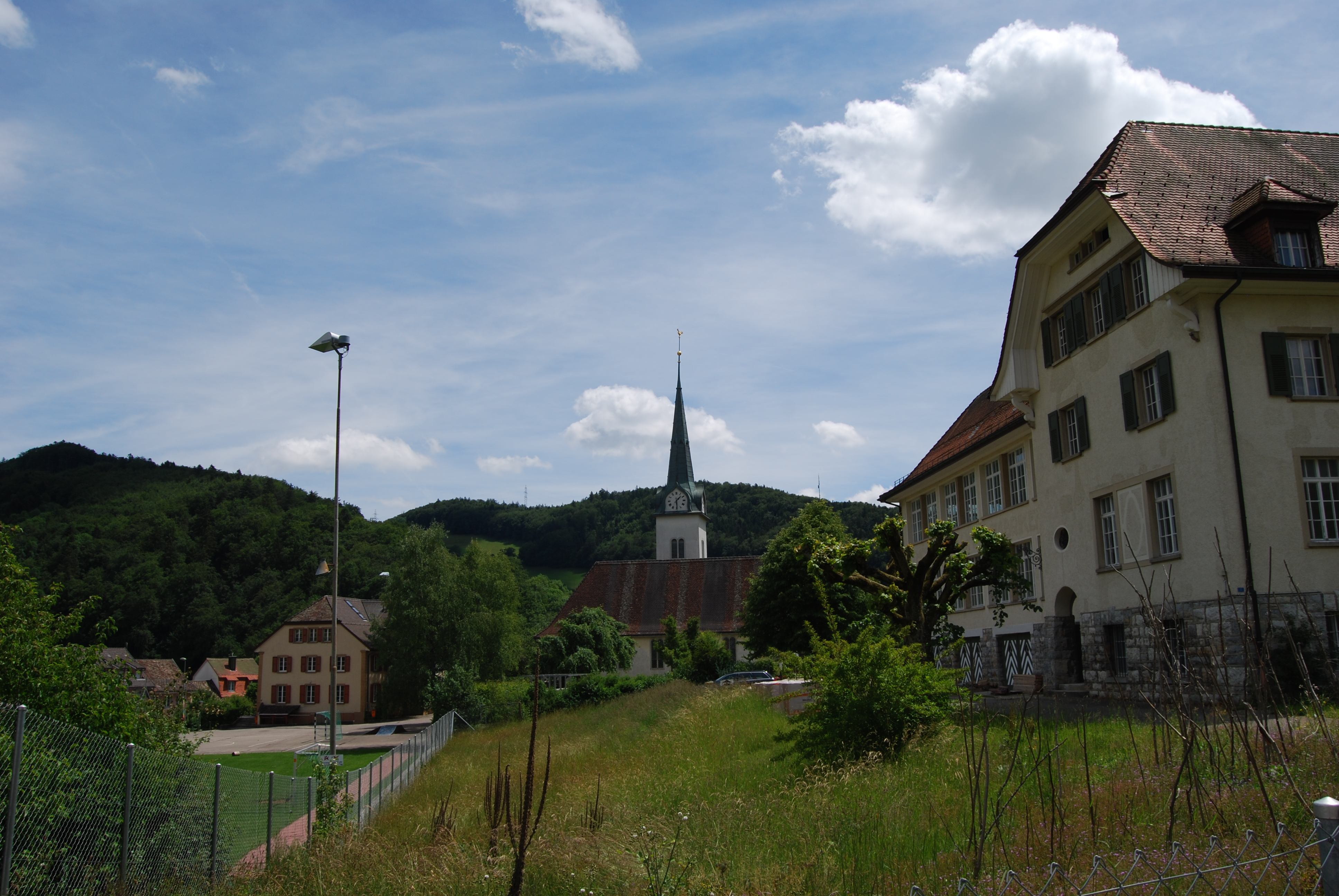 Protestant church of Langenbruck, canton of Basel-Country, Switzerland